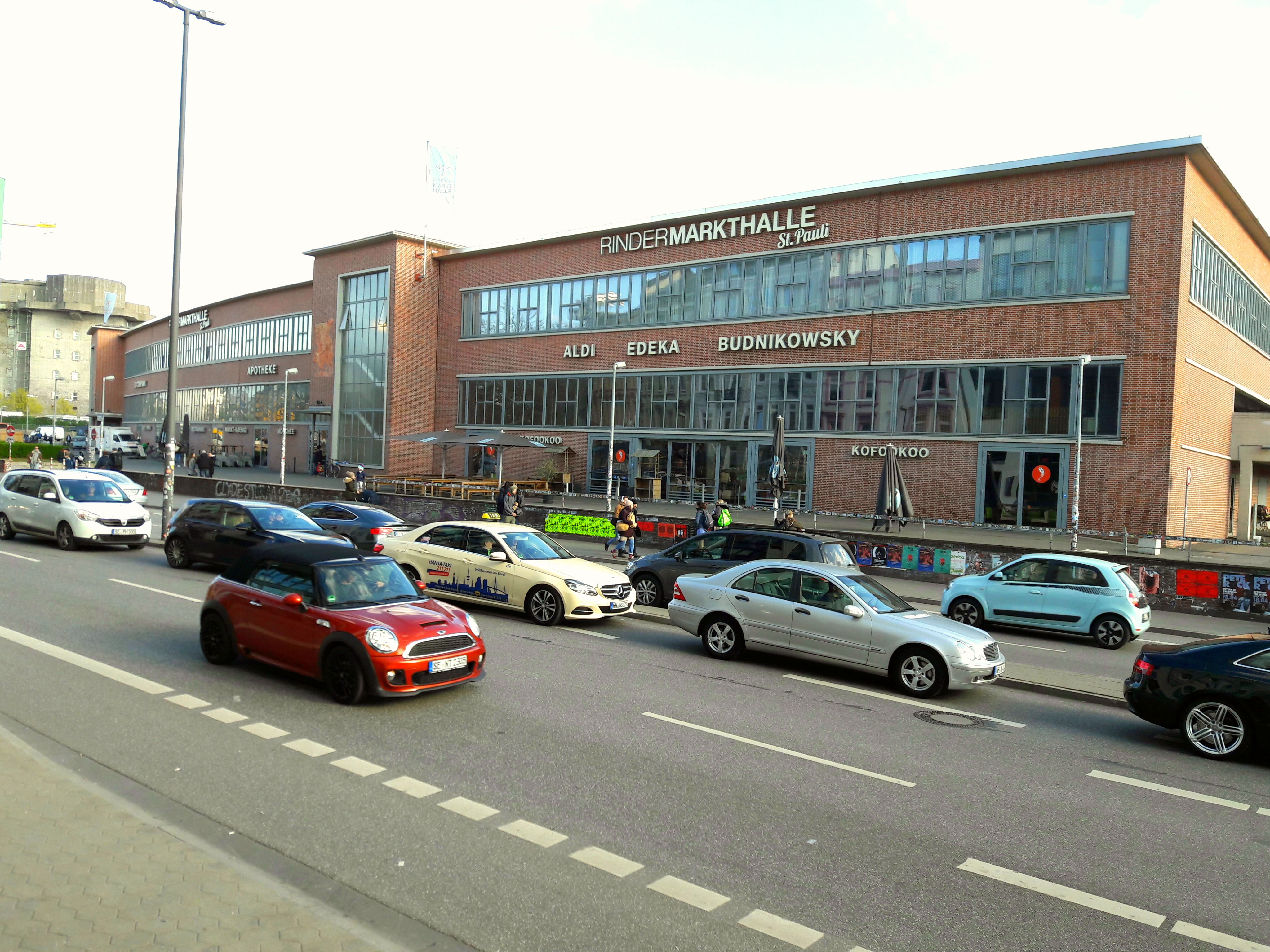 Rindermarkthalle St. Pauli. Front (northern side) photographed from Neuer Kamp.